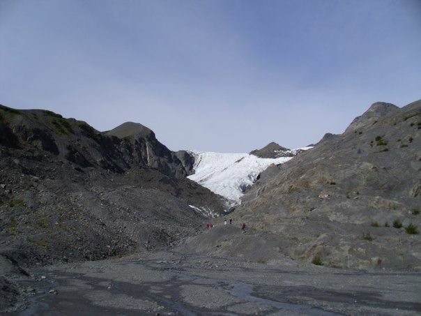 Worthington Glacier in Thompson Pass, Chugach Mountains, Alaska, note the hikers for scale